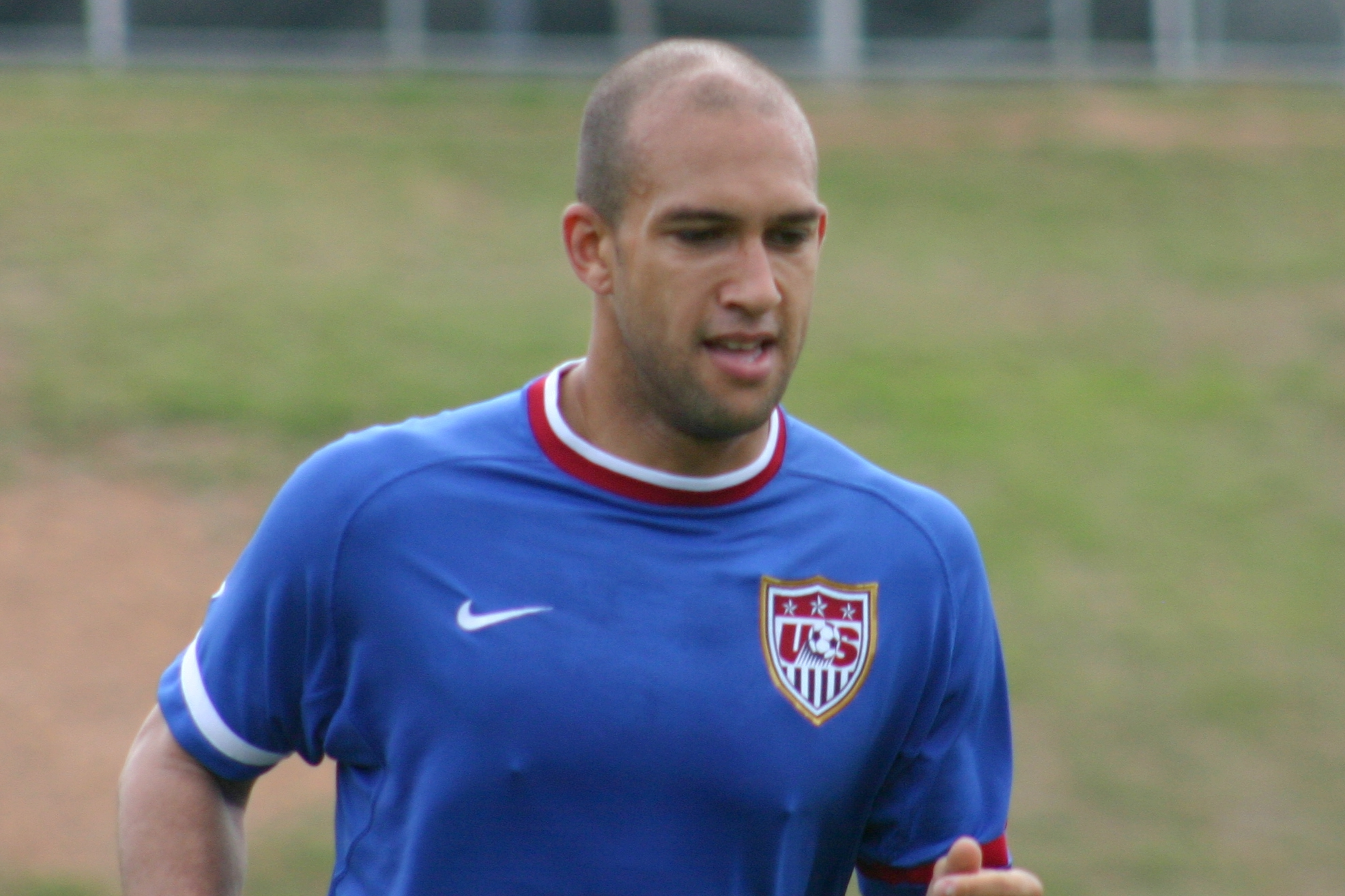 Tim Howard during USMNT practice session